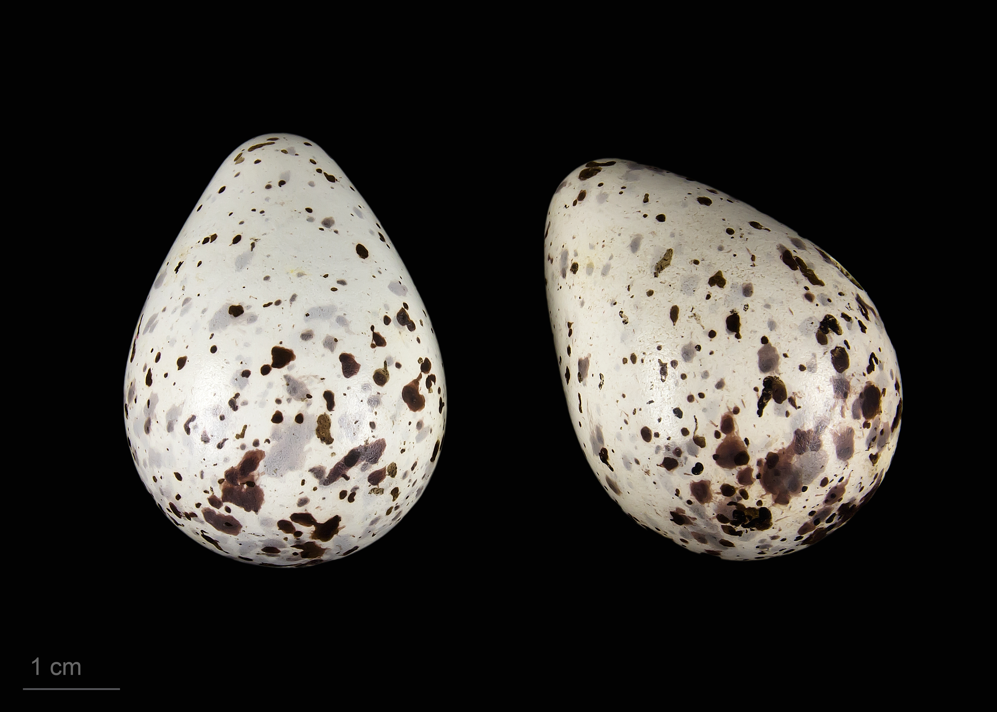 Eggs of green sandpiper Two specimens of the same spawn ; collection of Jacques Perrin de Brichambaut.